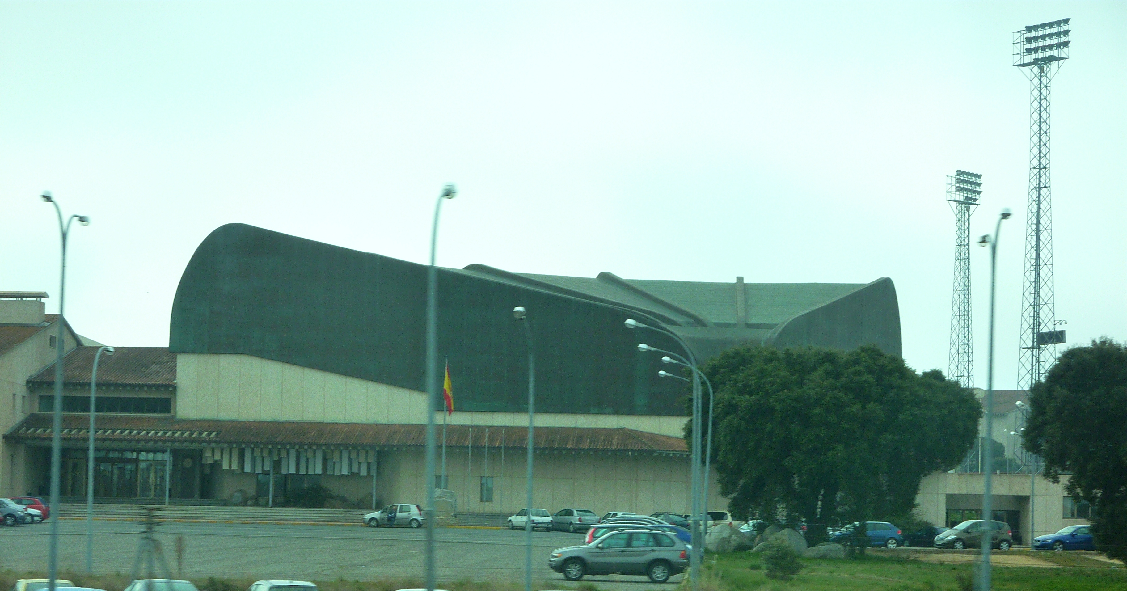 Spanish Cuerpo Nacional de Policía (National Police) Academy in Ávila.